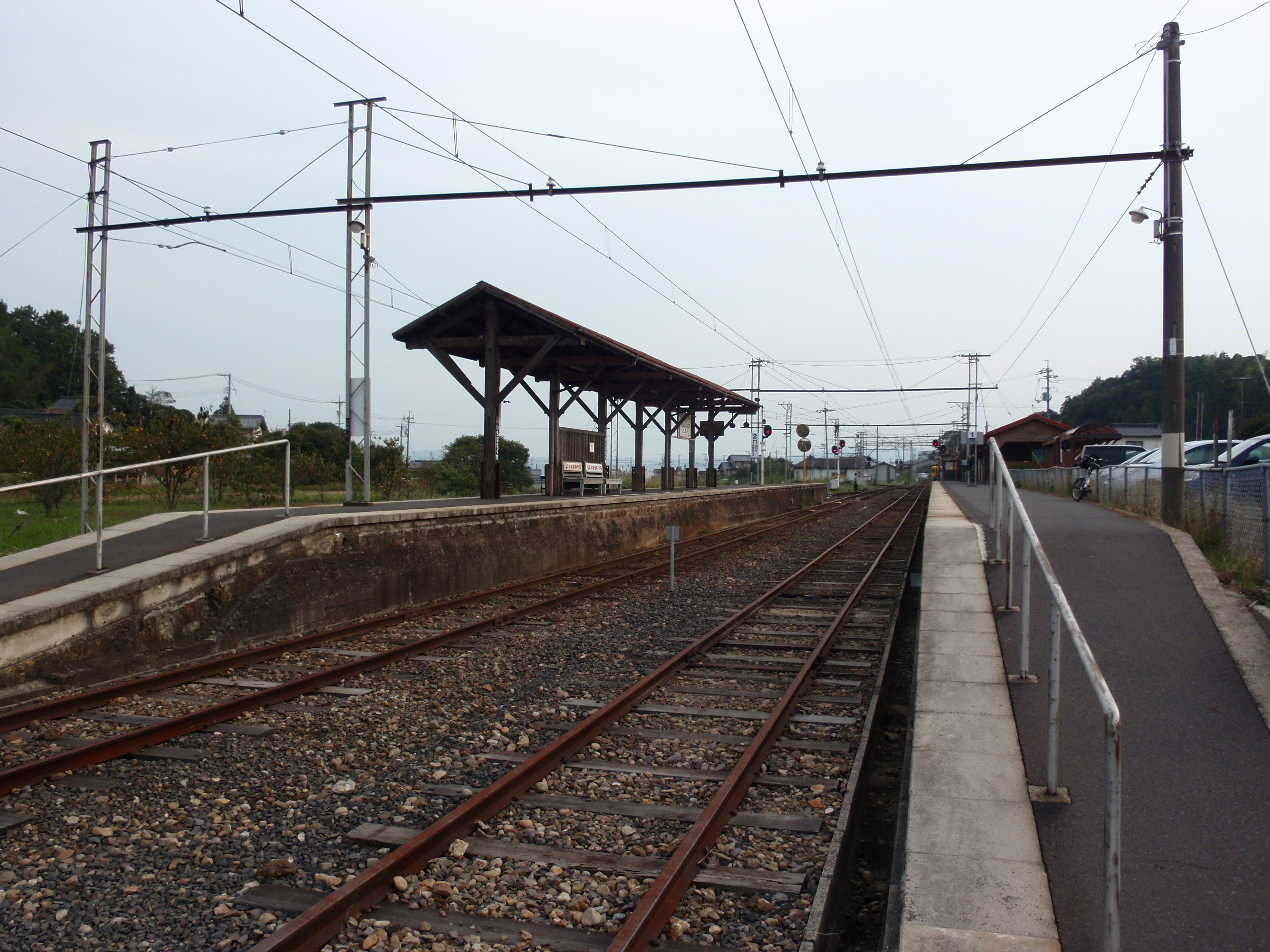 Ichibataguchi Station